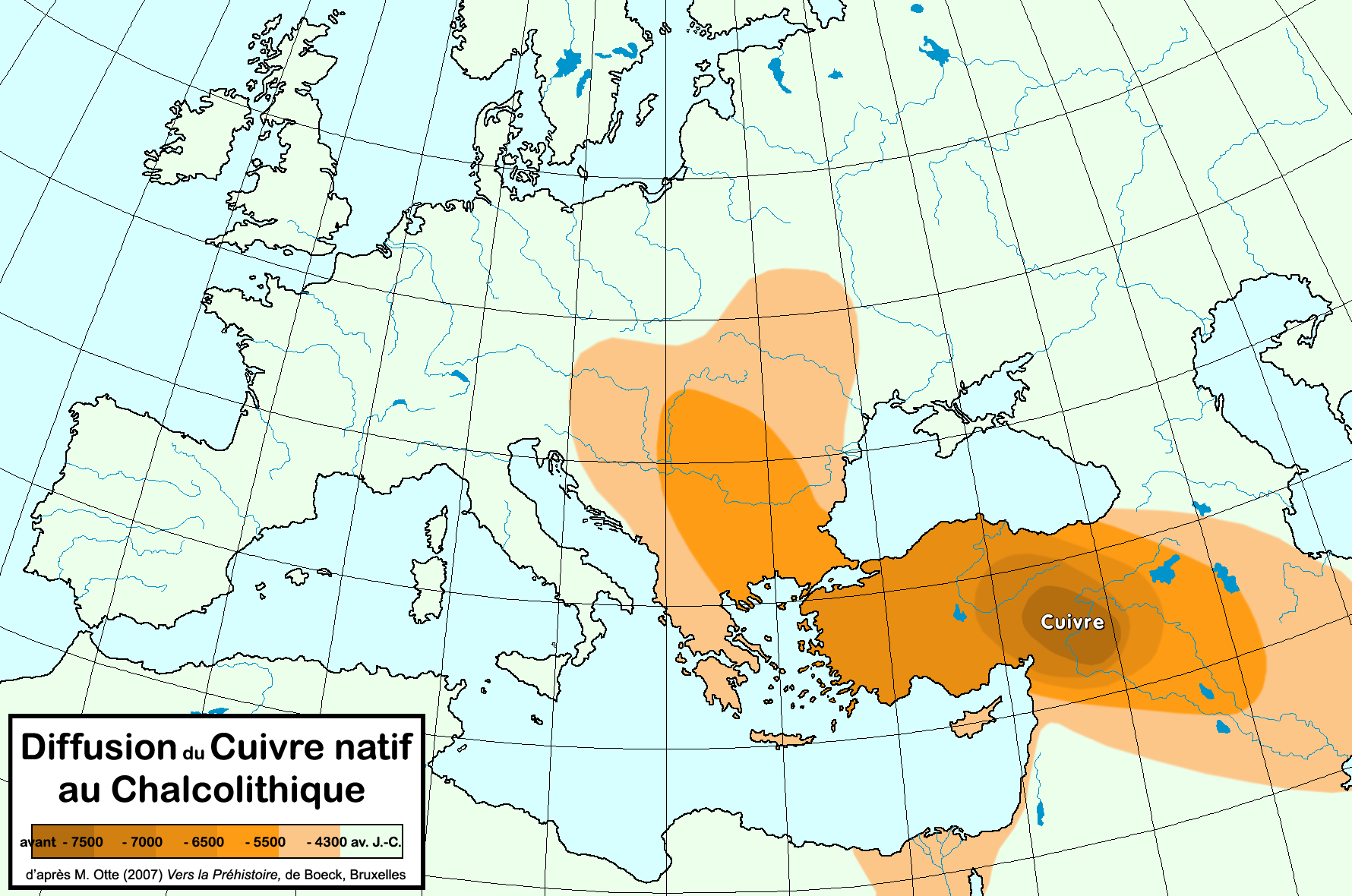 Diffusion periods: oldest, 7500, 7000, 6500, 5500, 4300 BC